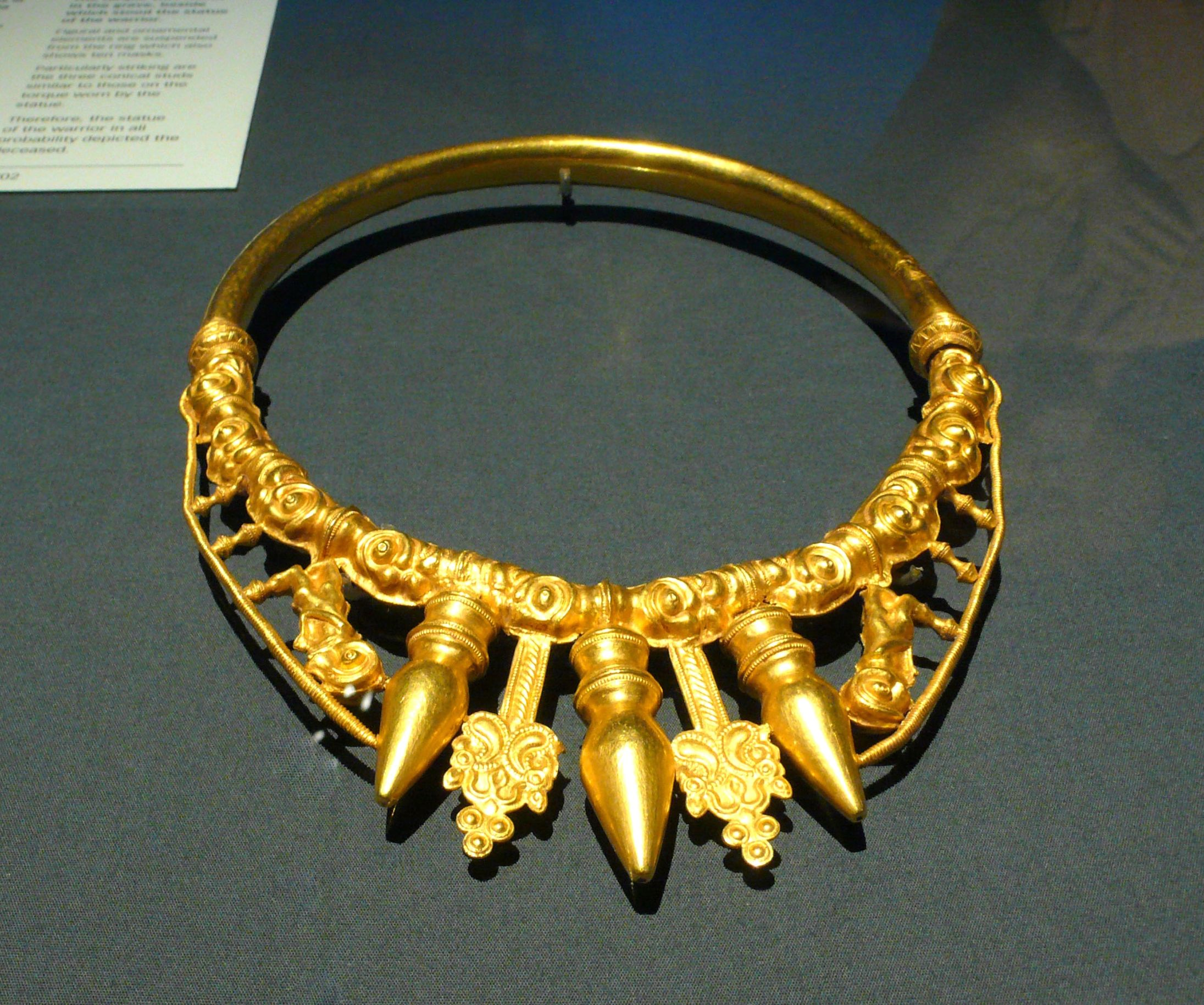 Glauberg, Germany. About 400 BC The torque was found in a grave beside which stood the statue of the warrior. Figural and ornamental elements are suspended from the right, which also shows ten masks. The particularly striking feature is the three conical studs similar to those worn by the statue. They might all depict the same deceased. Kunst der Kelten, Historisches Museum Bern. Art of the Celts, Historic Museum of Bern.